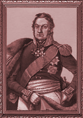 Russian Lieutenant general Vasily Nikolayevich Chicherin.